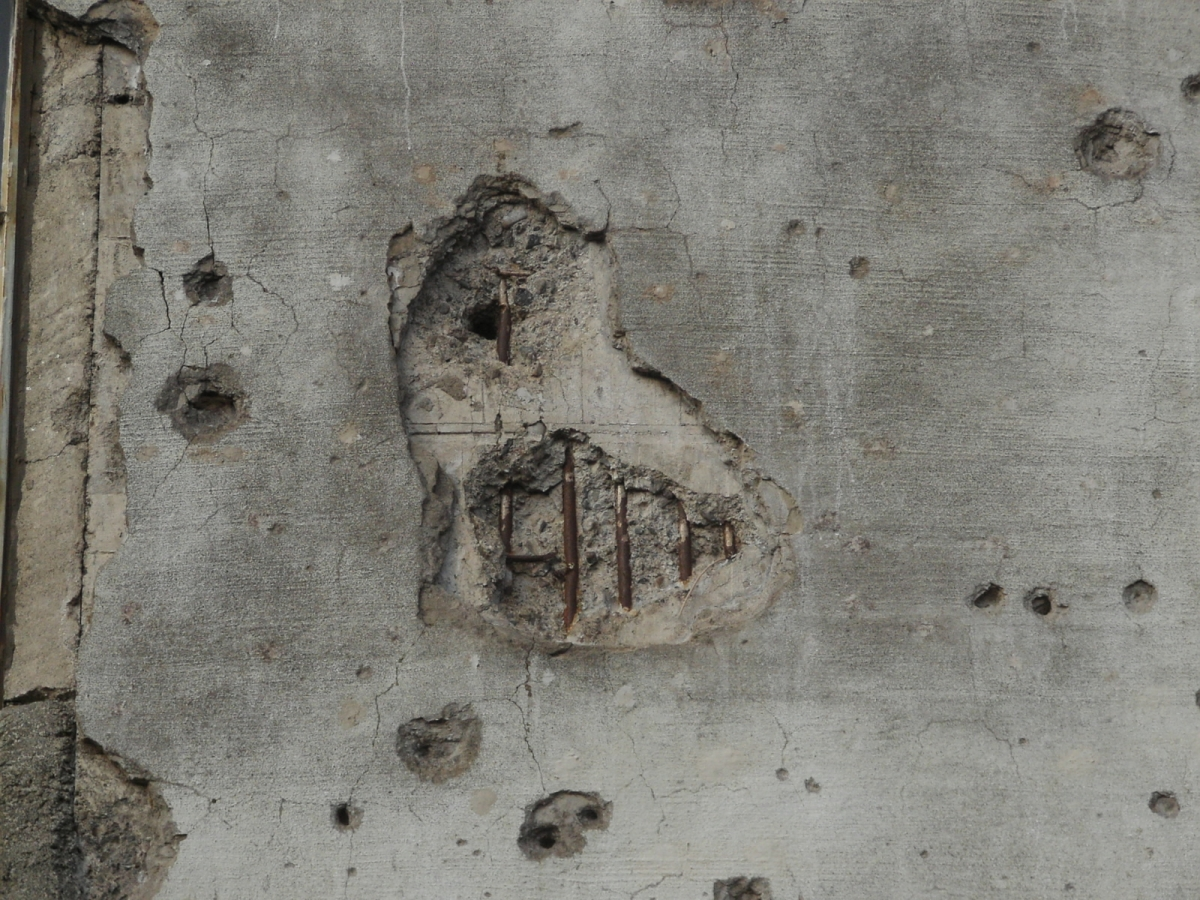 Hitachi plane Tachikawa transformer substation 旧日立航空機立川変電所 ｢東大和市指定史跡｣ 東京都東大和市桜が丘2-106-2